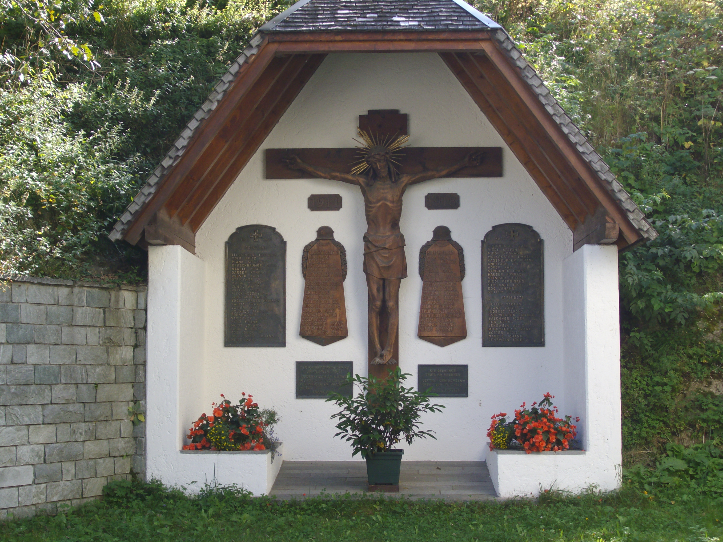 Austria, Tyrol (state), Gries am Brenner. The War Memorial at the village cemetery. This media shows the remarkable cultural object in the Austrian state of Tyrol listed by the Tyrolean Art Cadastre with the ID 43831. (on tirisMaps, on tirisdienste.at, pdf, more images on Commons)